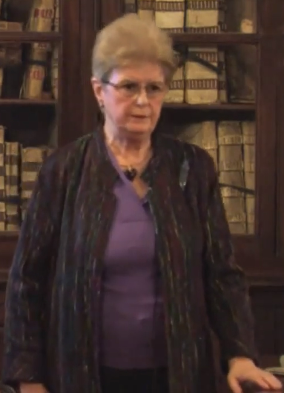 Scrocco Colloquia - Dedicati al fondatore della Chimica Fisica pisana Nina Berova, Department of Chemistry, Columbia University, New York Elucidation of Molecular and Supramolecular Chirality by Experimental and Theoretical Chiroptical Methods